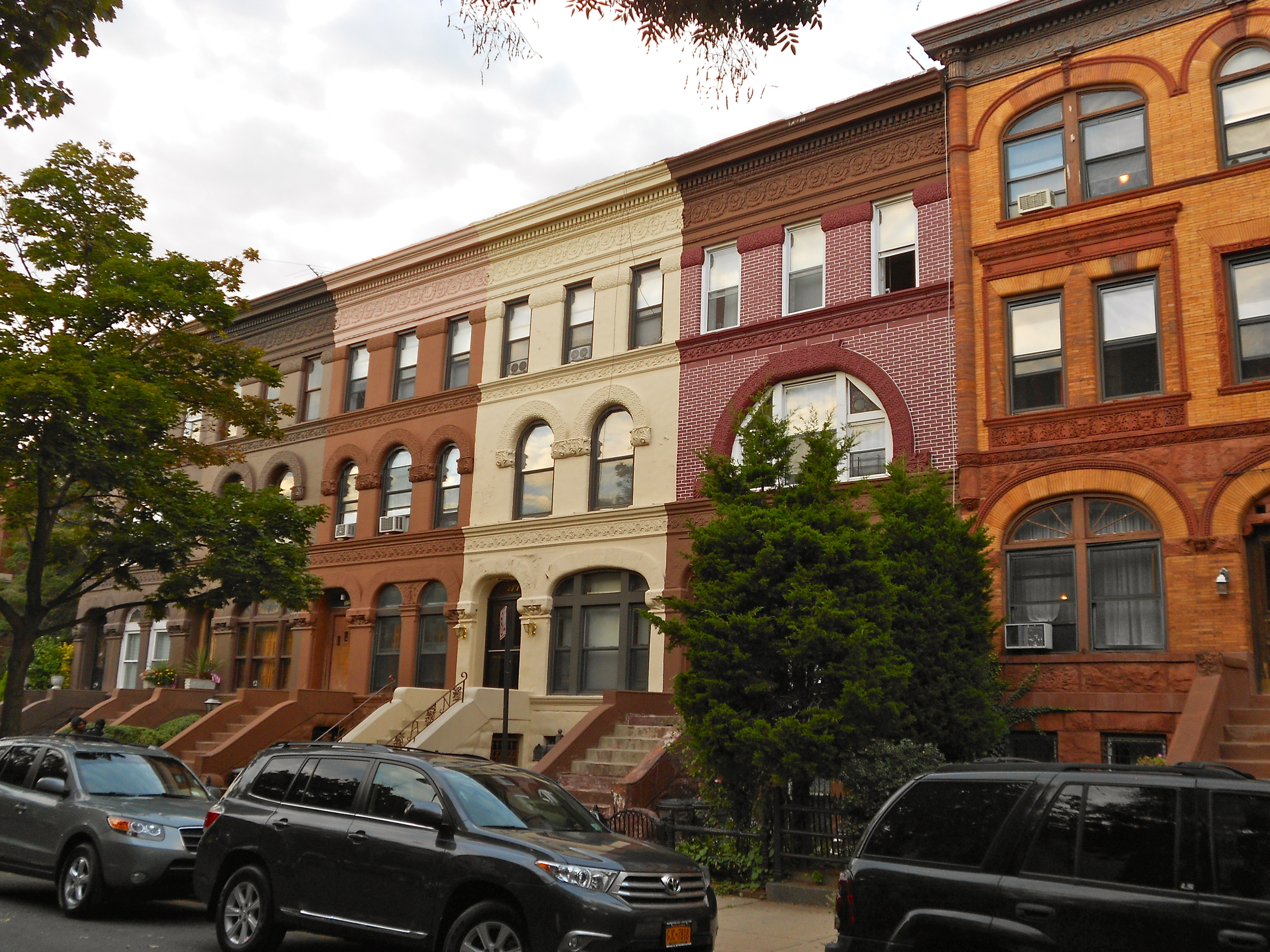 Decatur Street in Stuyvesant Heights Historic District Listed by the NRHP on December 4, 1975. The district is roughly bounded by Macon, Tompkins, Decatur, Lewis, Chauncey, and Stuyvesant • Boundary increase (listed November 15, 1996, refnum 96001355): Roughly, Decatur St. from Tompkins to Lewis Aves. in Bedford-Stuyvesant, Brooklyn, New York. This is one of the nicest historic districts I've seen, and very large as well.